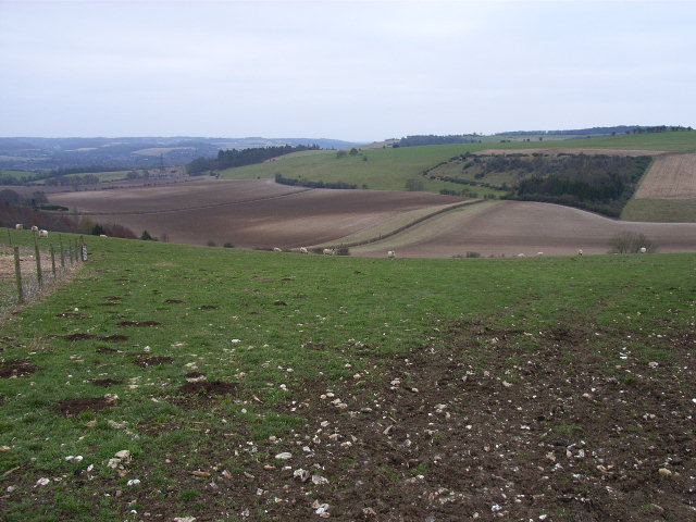 Valley in the Moulsford Downs. View across the valley, which is part of the Well Barn Estate, from Lingley Knoll.